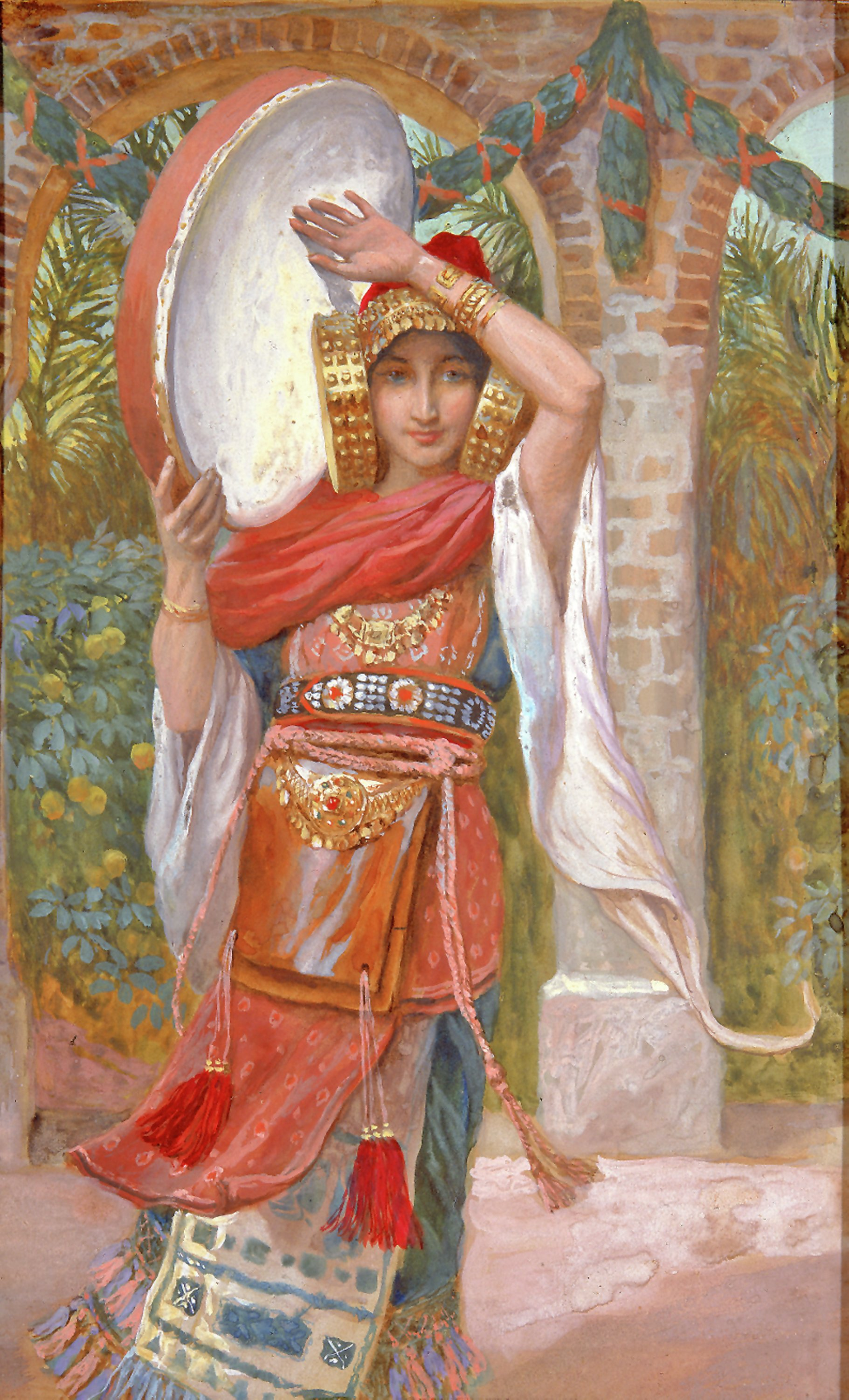 Jephthah's Daughter, c. 1896-1902, by James Jacques Joseph Tissot (French, 1836-1902) or follower, gouache on board, 11 5/16 x 7 in. (28.9 x 17.8 cm), at the Jewish Museum, New York